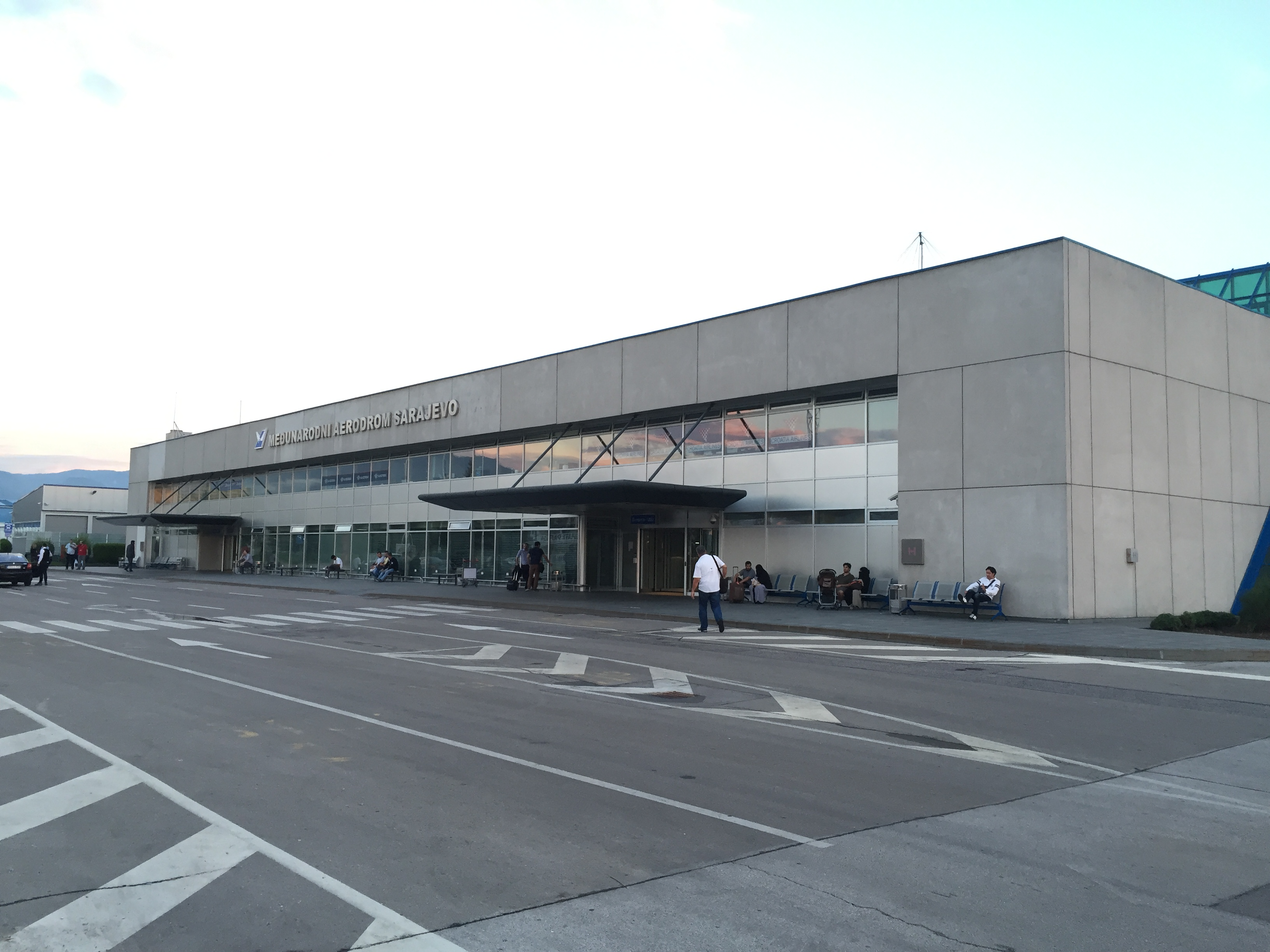 Sarajevo Airport main terminal building